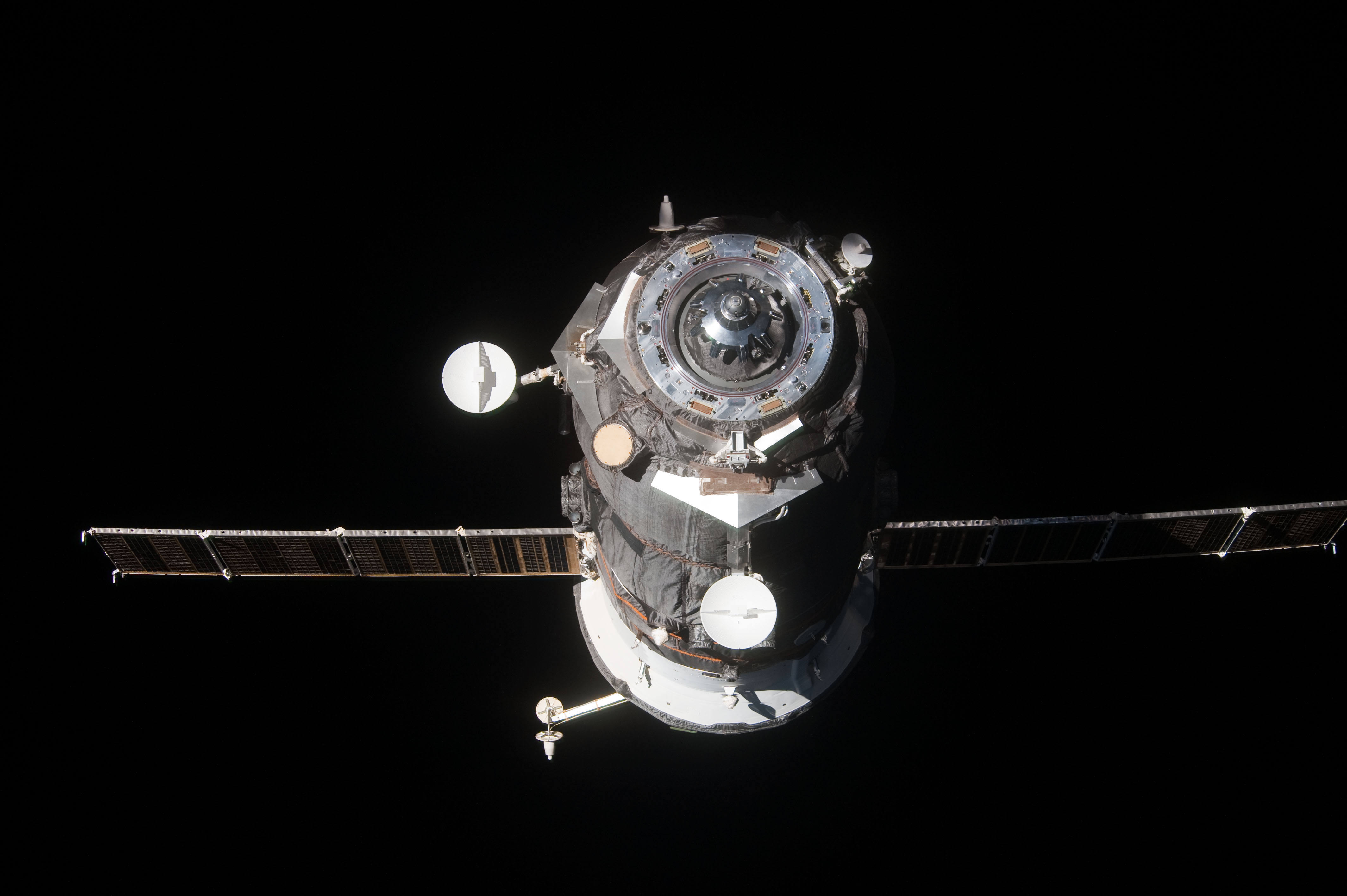 The trash-filled ISS Progress 46 spacecraft departs from the International Space Station on April 19, 2012. Russian flight controllers will command the Progress 46 for several days of tests, and then send it to burn up in Earth's atmosphere over the Pacific Ocean.